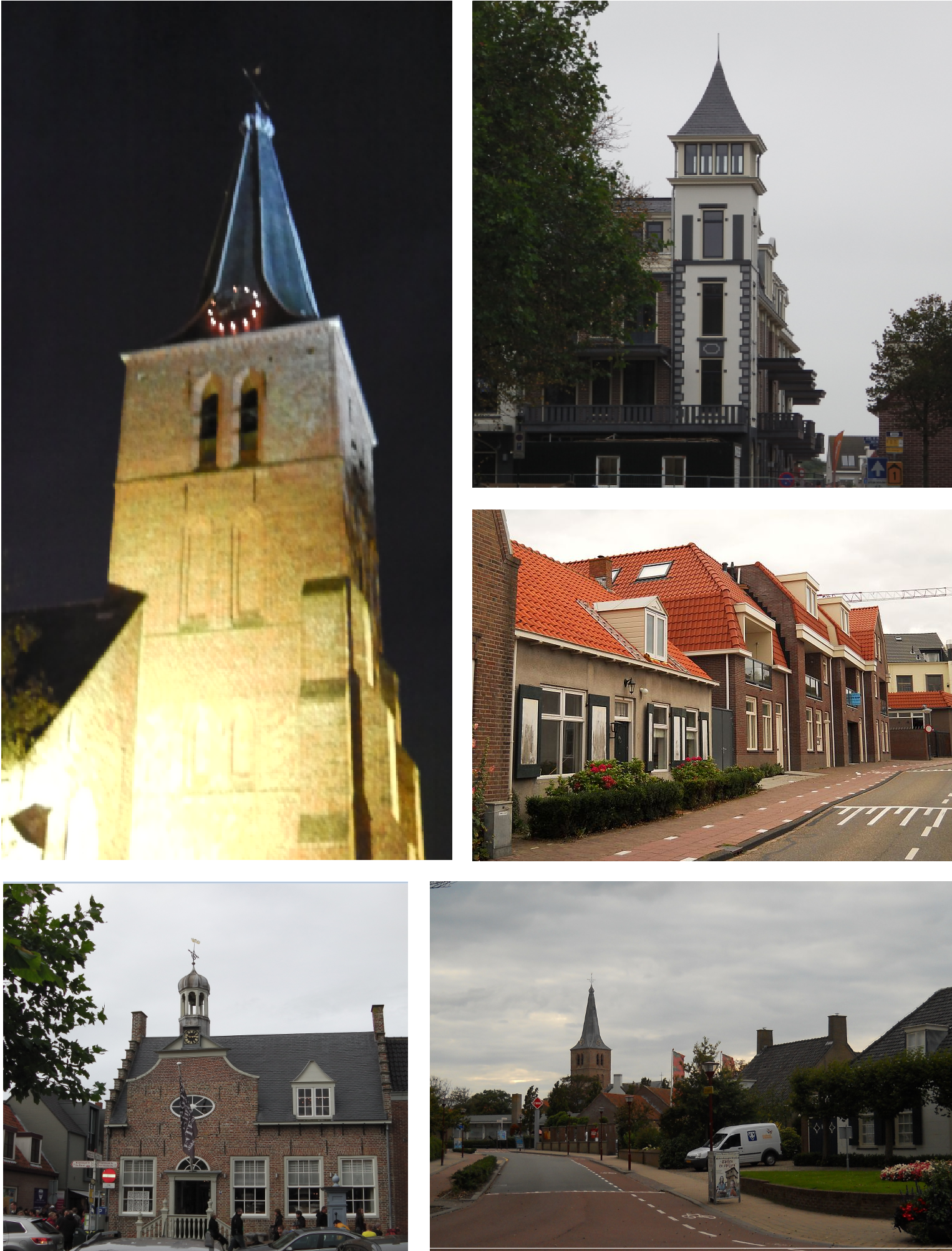 All the photos are my own work